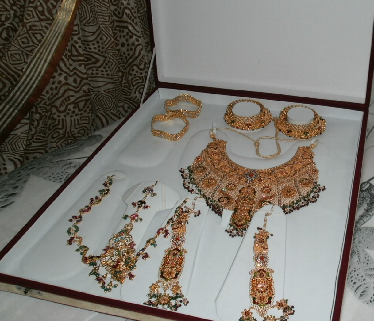 A set of wedding ornaments for the bride, Bangladesh, 2010